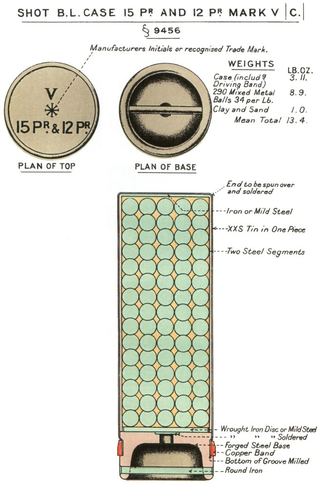 Diagram of British 3 inch Case Shot, Mk V. 1914. For use with the following guns :- BL 15 pounder BLC 15 pounder QF 15 pounder BL 12 pounder 6 cwt QF 12 pounder 8 cwt The copper band around the base is to seal the bore on firing, but does not impart spin, which would cause too great a lateral dispersion of the balls. On firing, gas issues through the hole in the base causing the body to break away from the base and causes the bullets to be released from the body before it has left the barrel. Effective up to 300 yards.